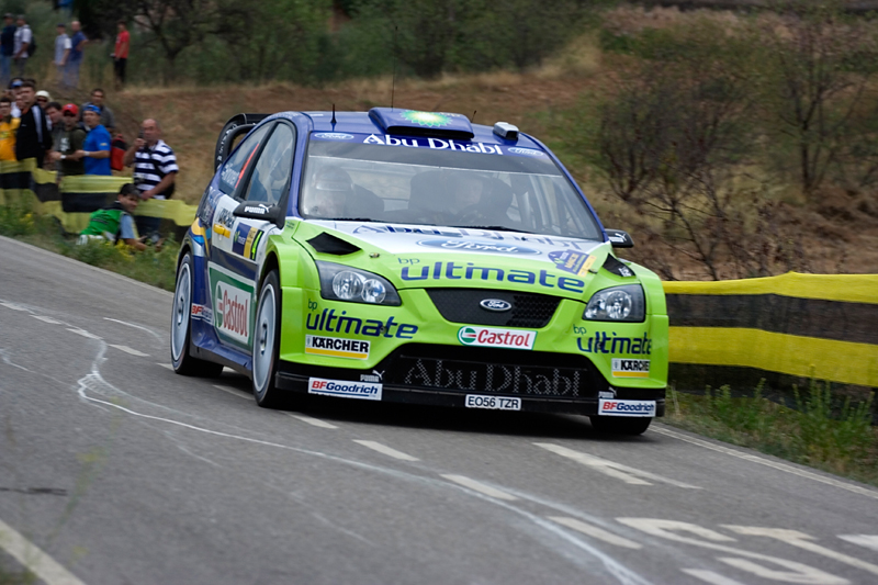 Mikko Hirvonen driving his Ford Focus RS WRC 07 at the 2007 Rally Catalunya.